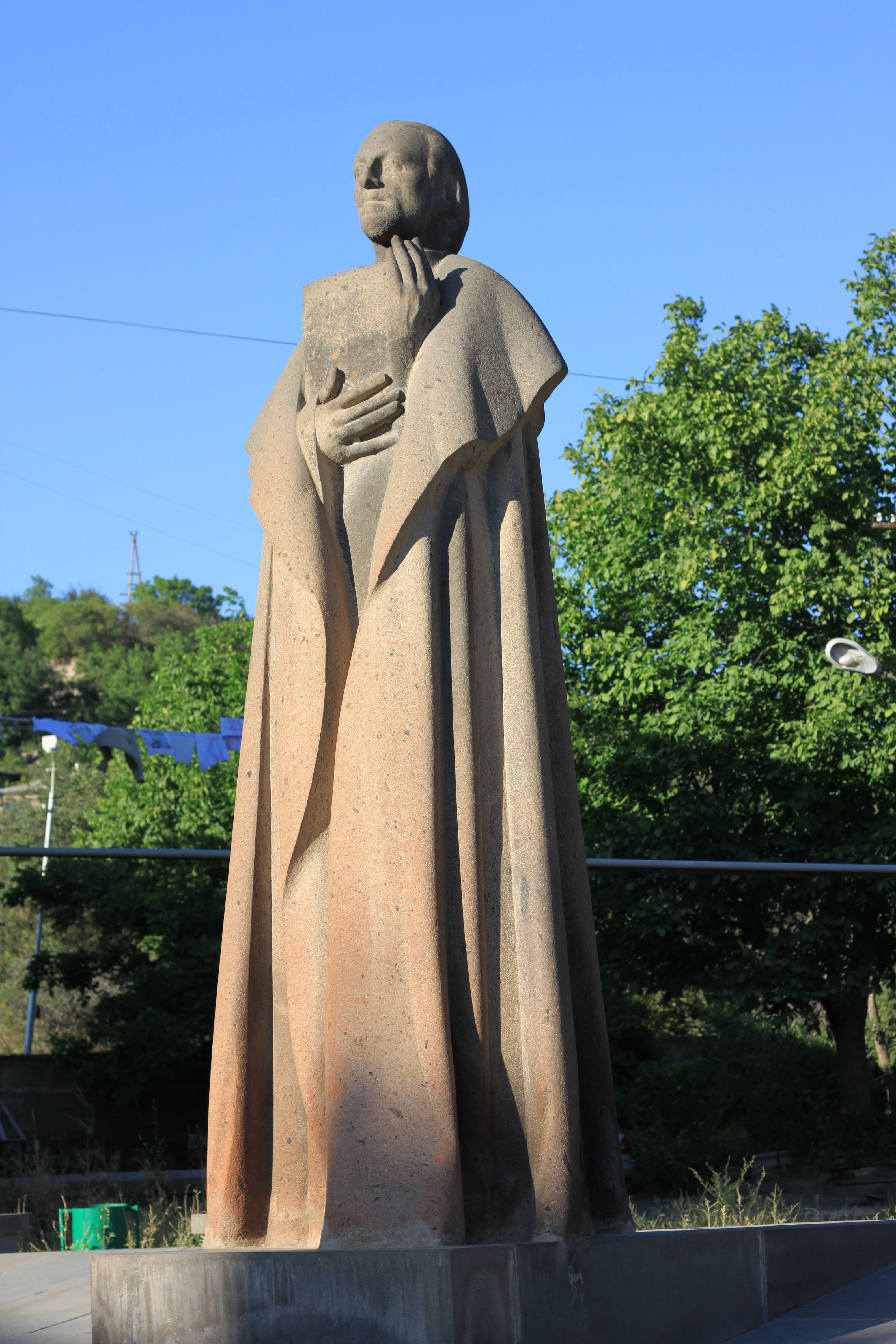 Nicholas Adontz, near historical museum as Sisian 6/32.16